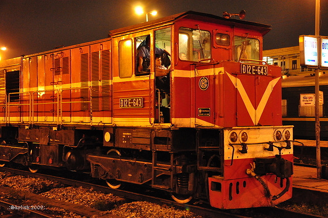 Taking train from Hanoi Railway Station to Lao Cai Railway Station